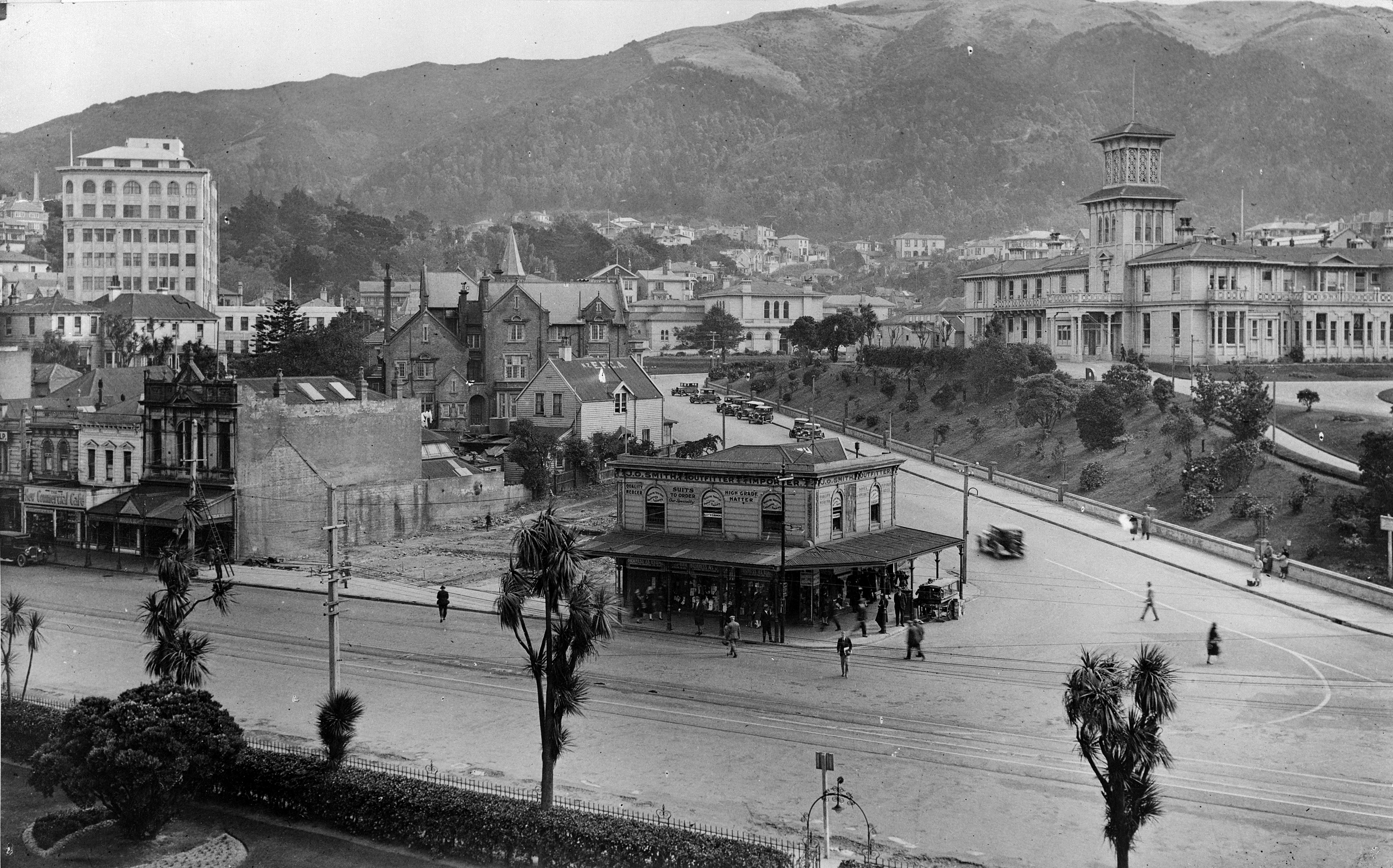 Overlooking the intersection of Lambton Quay and Bowen Street, Wellington, 1929 On the right on the site of the Beehive the entrance front and tower of the former Government House Reference Number: 1/1-000698-F Original negative Find out more about this image from the Alexander Turnbull Library.